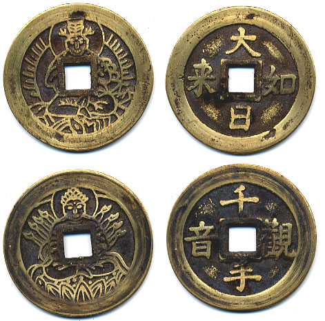 Images of Chinese numismatic charms Scott Semans sold, these charms were used to attract good fortune and ward off both evil spirits and misfortune.